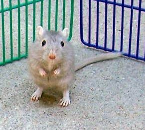 Lilac gerbils are very common in North America. Their grey fur is darker than Sapphire and Dove gerbils.